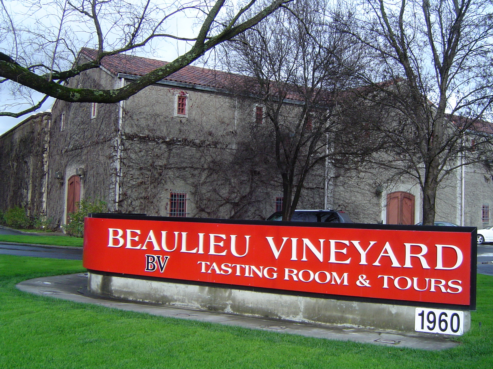 Beaulieu Vineyard Photo taken by user on January 14, 2006.